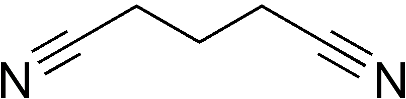 chemical structure of glutaronitrile